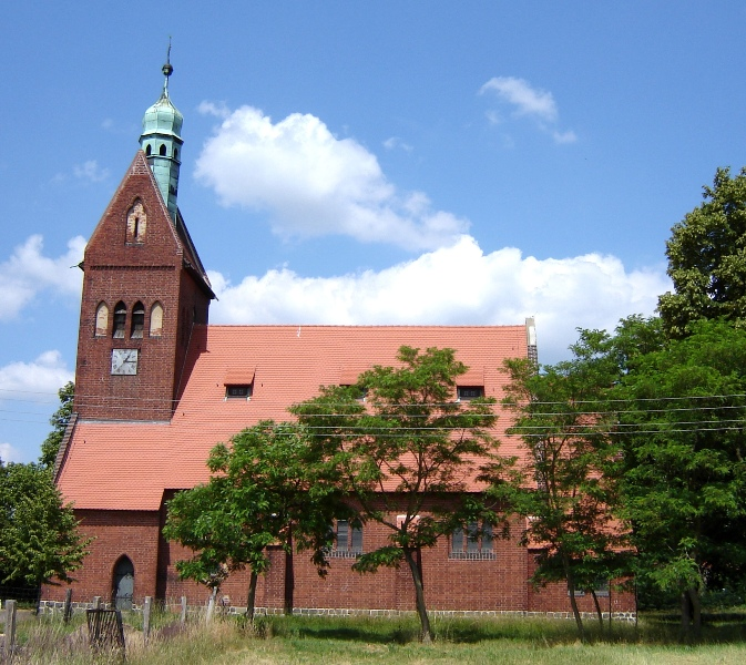 Protestant church in Derben (Saxony-Anhalt)